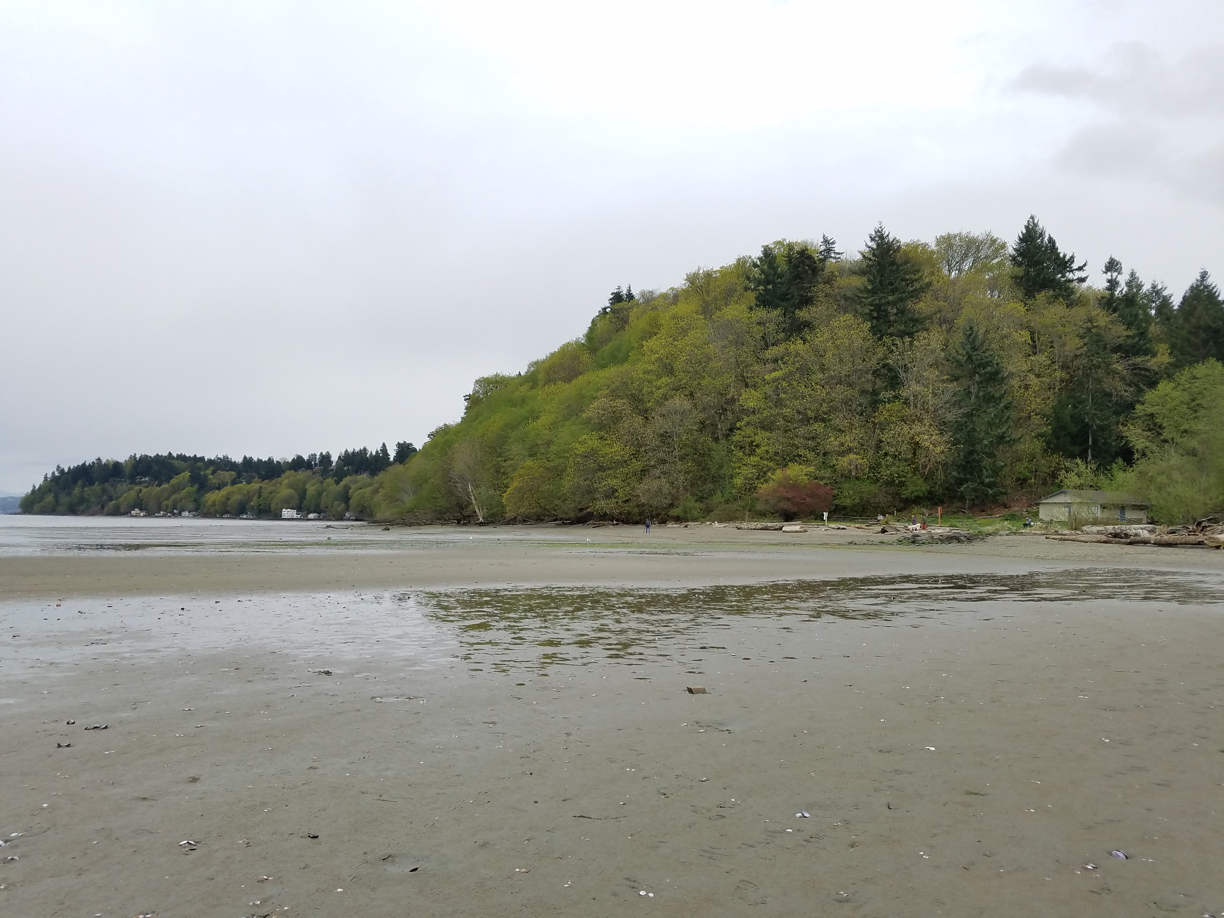 Beach at low tide at Dash Point State Park in Washington state, USA.